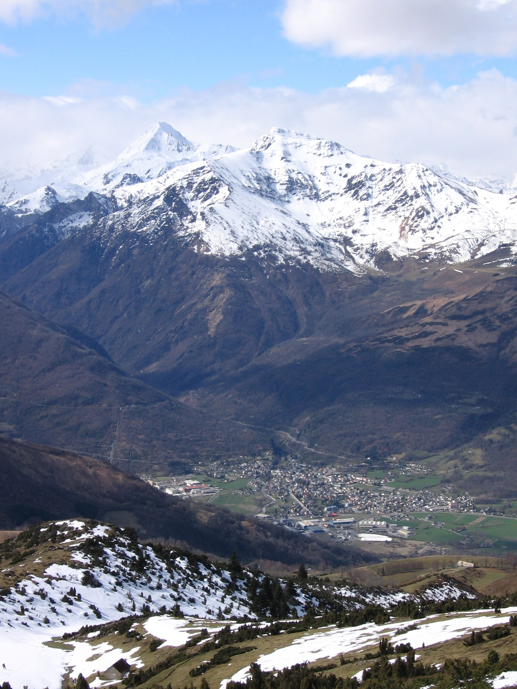 Pierrefitte-Nestalas, viewed from Hautacam, Hautes-Pyrénées, France.